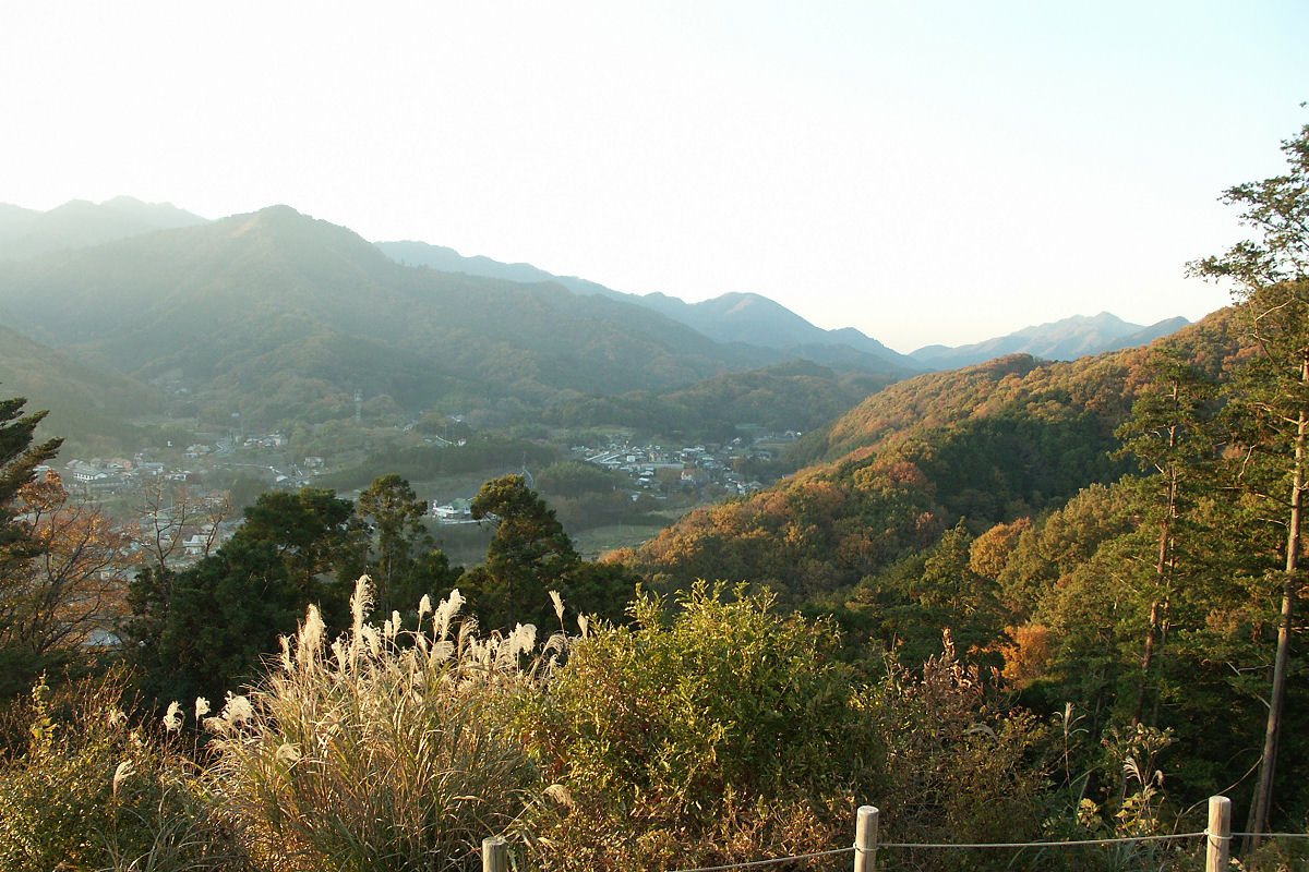 七沢森林公園「ななさわの丘」から望む公園北部の森と七沢地区、東丹沢の山々 撮影日：2006年12月06日 撮影地：七沢森林公園（神奈川県厚木市七沢） 撮影者：cory View from "Nanasawa-no-oka", Nanasawa and Tanzawa. Date: 2006-12-06 (Dec 06, 2006) Place: Nanasawa Shinrin-koen (forest park), Nanasawa Atsugi Kanagawa Japan. Author: ISAKA Yoji (cory)